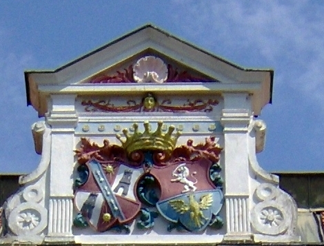 Coats of arms Migazzi(left), Ambrózy (right) on the Ambrózy´s manor in Arborétum Mlyňany